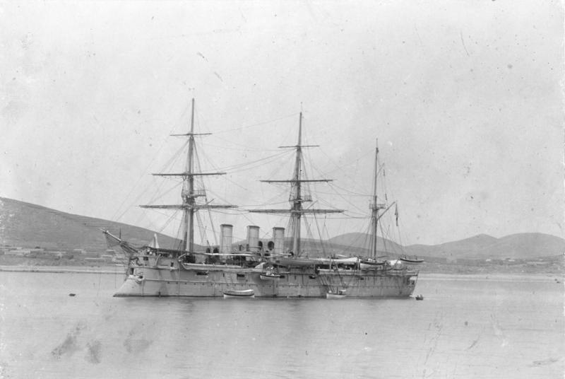 Port call by Russian cruiser Pamiat Azova in 1898.